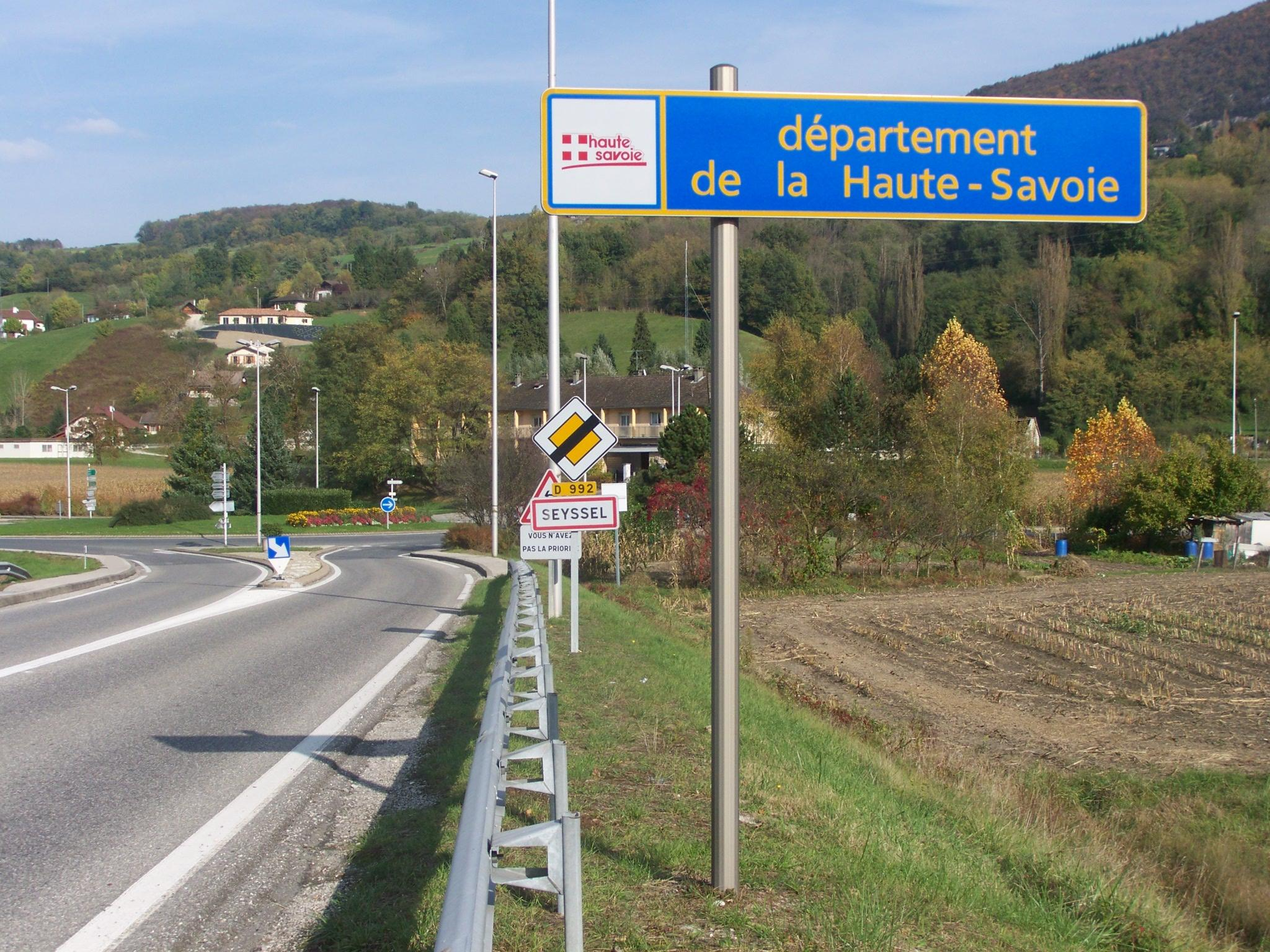 Signs welcoming visitors to the French department of Haute-Savoie and to the little commune of Seyssel after the crossing of the Rhône river.